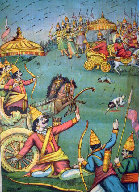 Arjuna's deadly attack on his half-brother Karna (bazaar art, c.1920's)